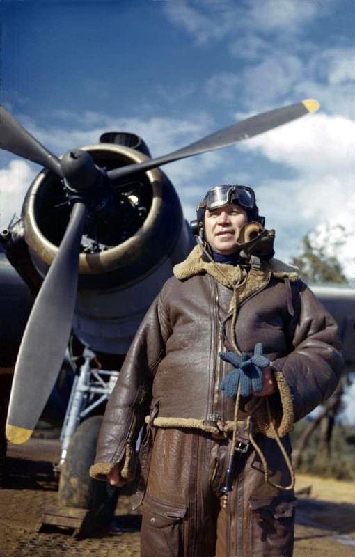 Air Vice Marshal Hugh Pughe Lloyd steht neben seiner Bristol Beaufighter als Teil der Mediterranean Allied Coastal Air Forces.